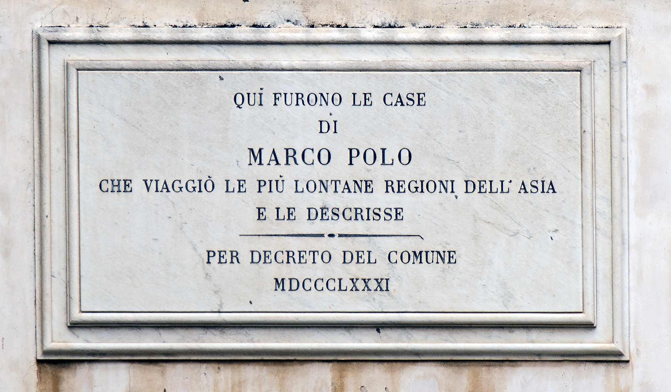 Commemorative plaque on the site of the old Casa Polo. Part of the Malibrant Theater, which runs along the Rio San Lio, is today a drama workshop attached to The Fenice. This white building with a neoclassical porch is erected on the site Casa Polo, where lived the father, the uncle and Marco Polo in Venice. The Casa Polo was destroyed by a fire in 1598.